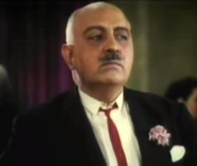 Paul Porcasi in La Cucaracha - cropped screenshot